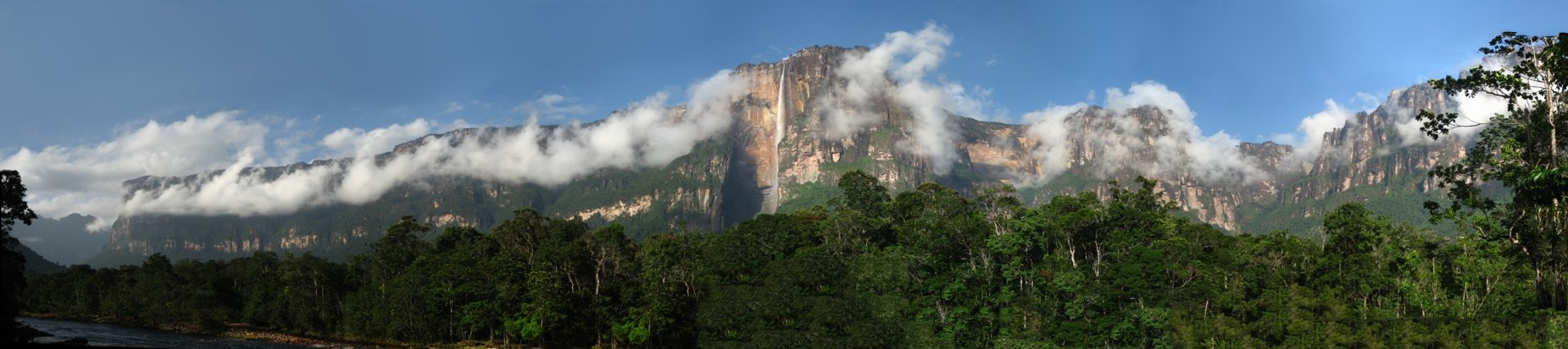 Panoramic view opposite Churun river. Composed of 21 individual pictures. Captured with Canon PowerShot SD600, assembled with Autopano Pro.